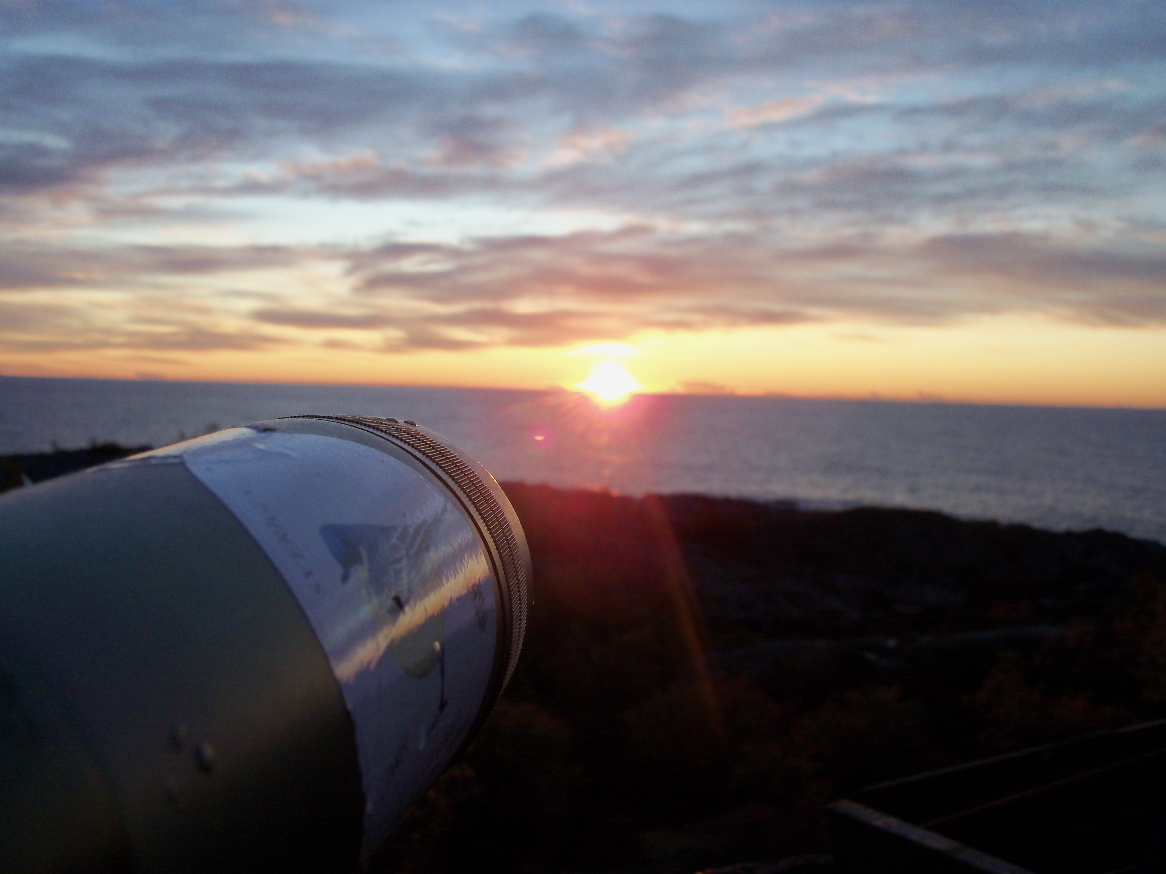 Birdwatching october 2010 with spotting scope at south cape of Landsort, as a part of the work of Landsort Bird Observatory.